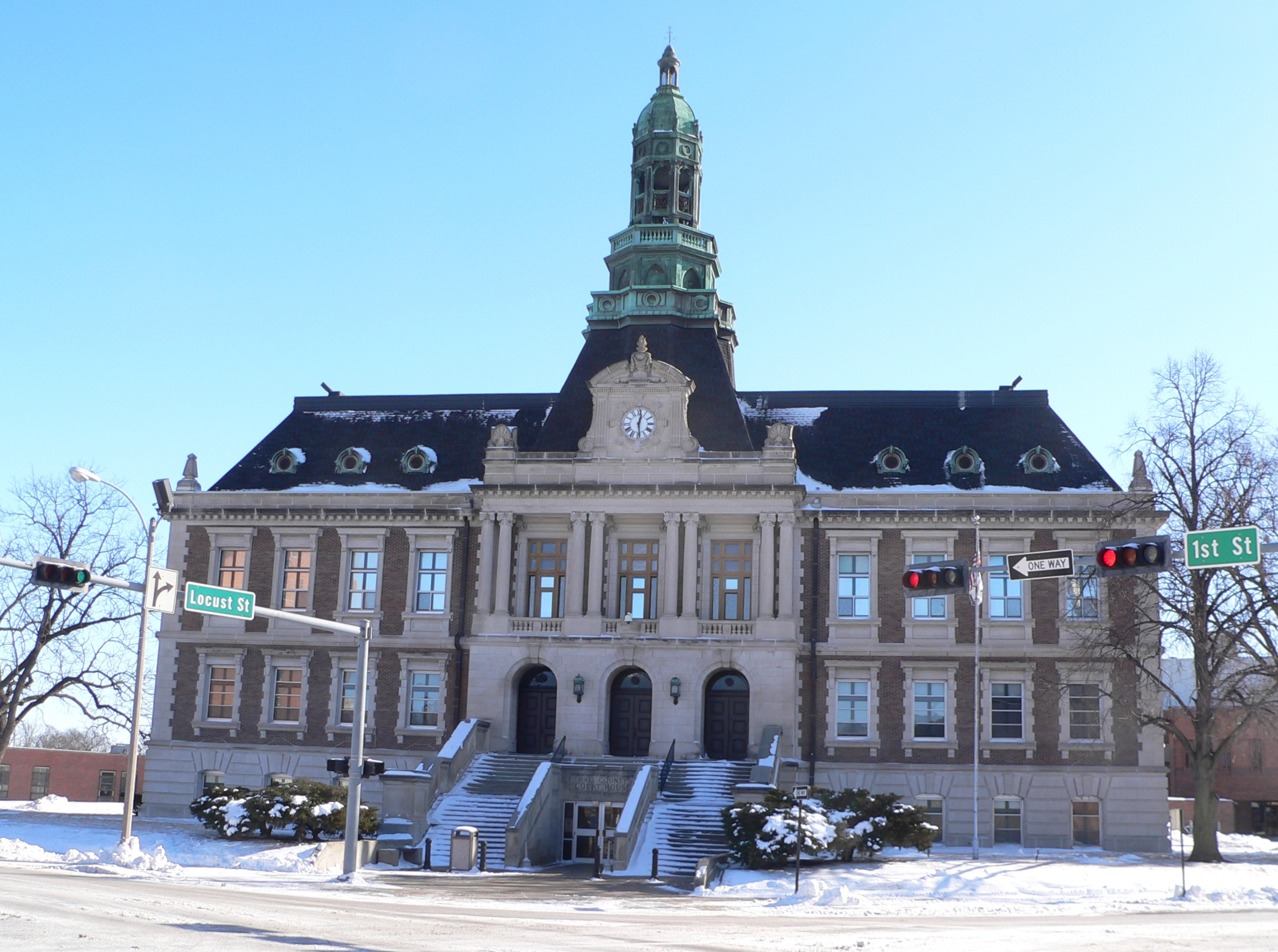 Front (north side) of Hall County Courthouse, located at the intersection of First and Locust Streets in Grand Island, Nebraska, United States. Built in 1901, it is listed on the National Register of Historic Places.